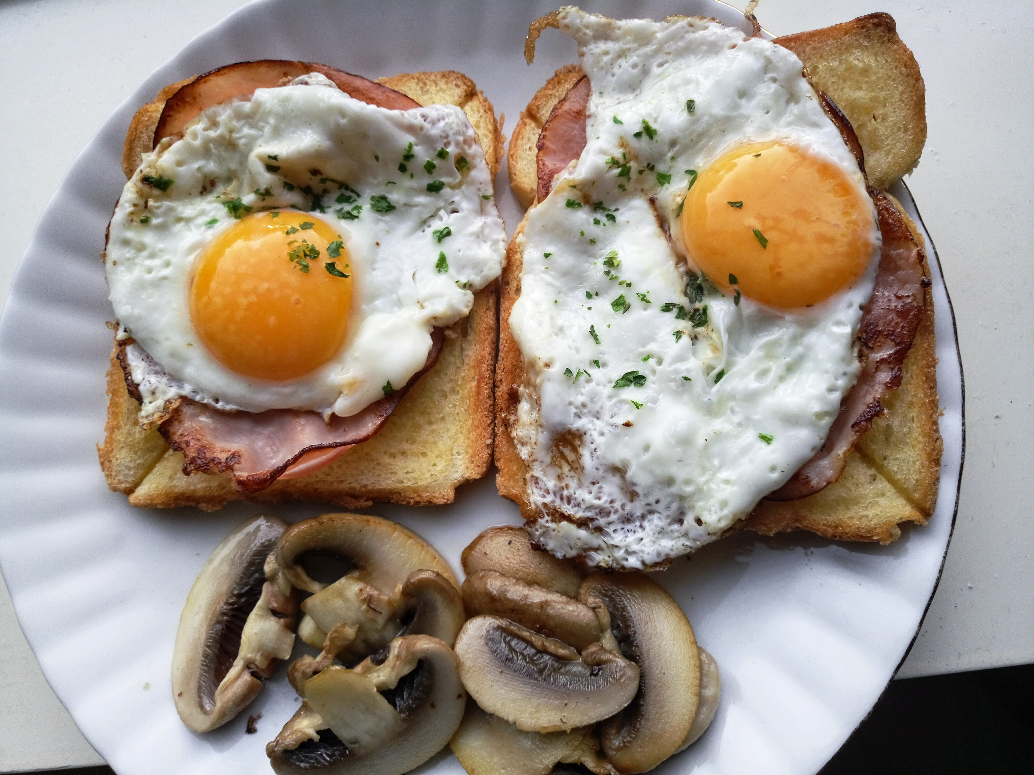 Eggs and ham toast with mushrooms for breakfast